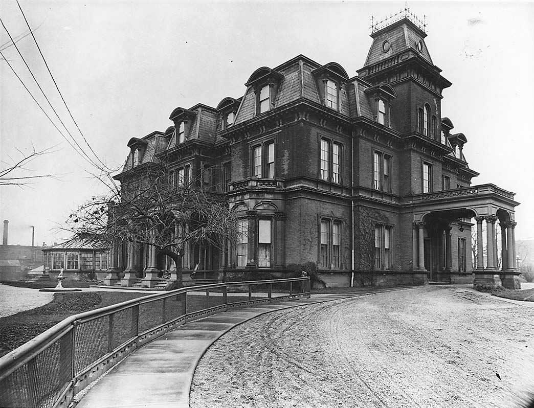 Government House, the official residence of the Lieutenant-Governor of Ontario, at King and Simcoe Streets. Toronto, Canada.